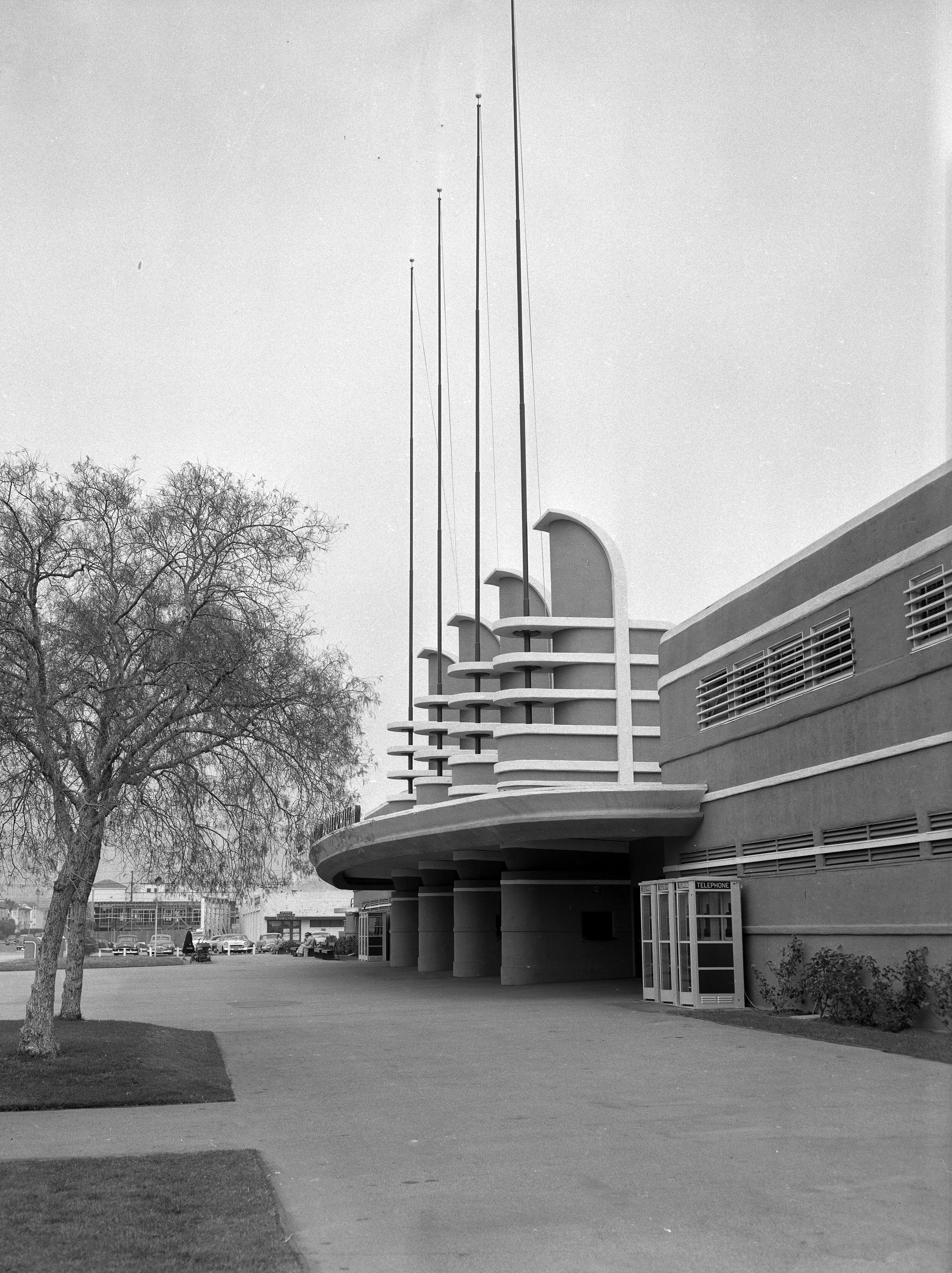 Title: Know Your City No.90 Entrance of the Pan-Pacific Auditorium, Los Angeles, Calif. Published caption:KNOW YOUR CITY, NO.90 -- From skates to baskets, this place has been on the pan for years. It also has had boats, homes, automobiles, etc. Thousands upon thousands of people have been here. Recognize it? Answer on Page 9, Part lll. Publication:Los Angeles Times Publication date:February 15, 1956 Source URL: Source:Los Angeles Times photographic archive, UCLA Library. Copyright Regents of the University of California, UCLA Library. Photo ID:uclalat_1429_b257_95950DI-1 Licensing Note about non-renewal of copyright: [1]